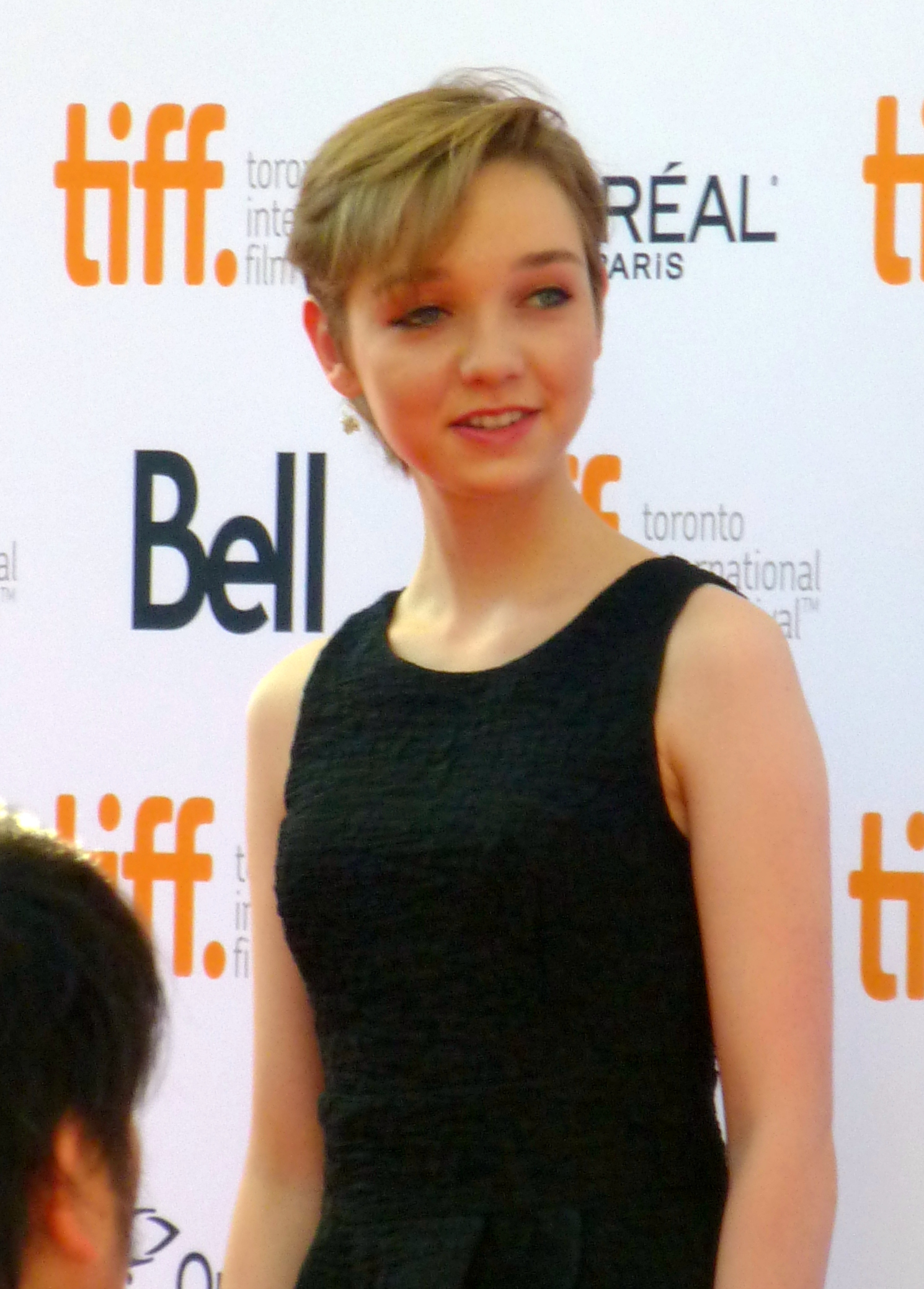 Julia Sarah Stone at the premiere of The Drop, 2014 Toronto Film Festival